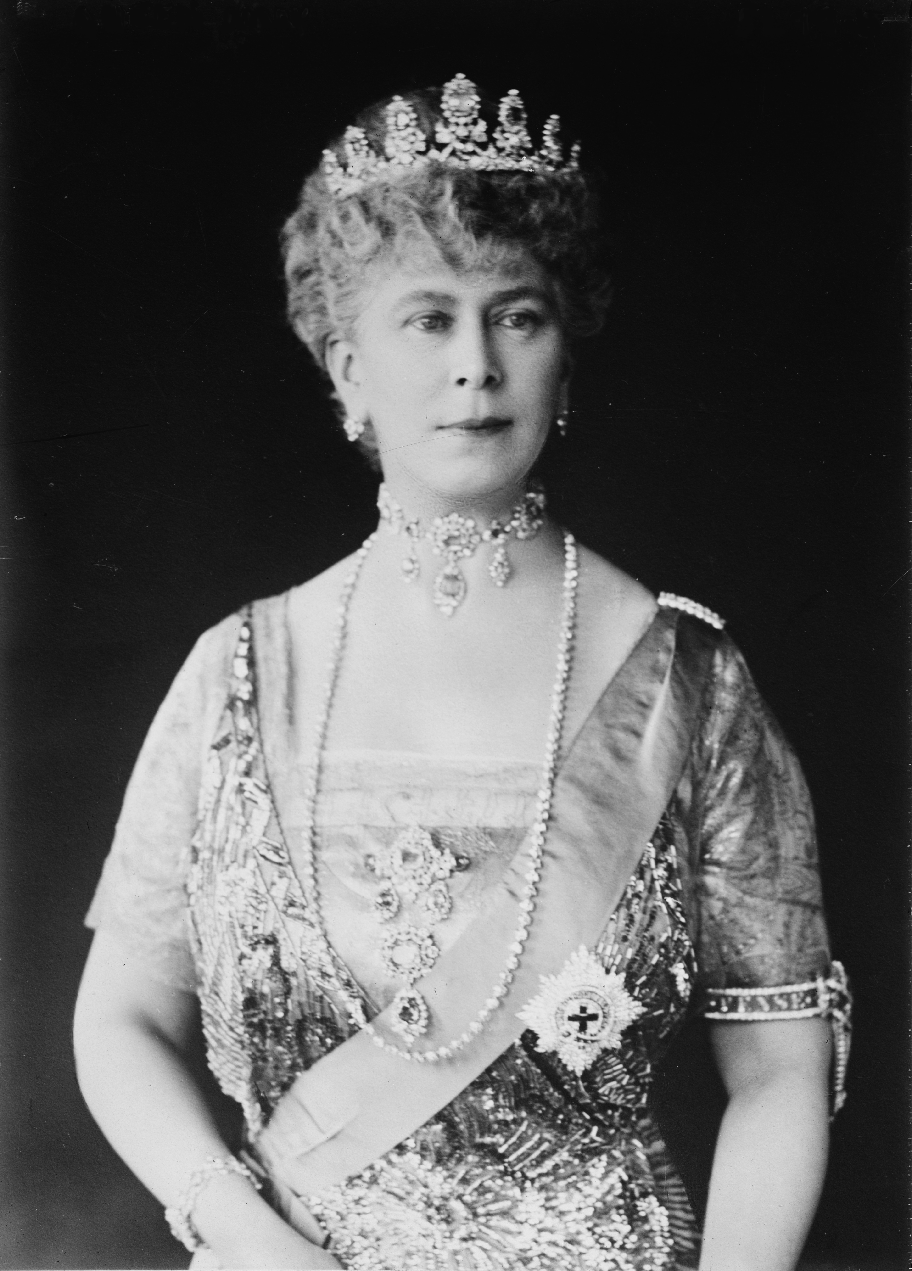 Queen Mary of the United Kingdom